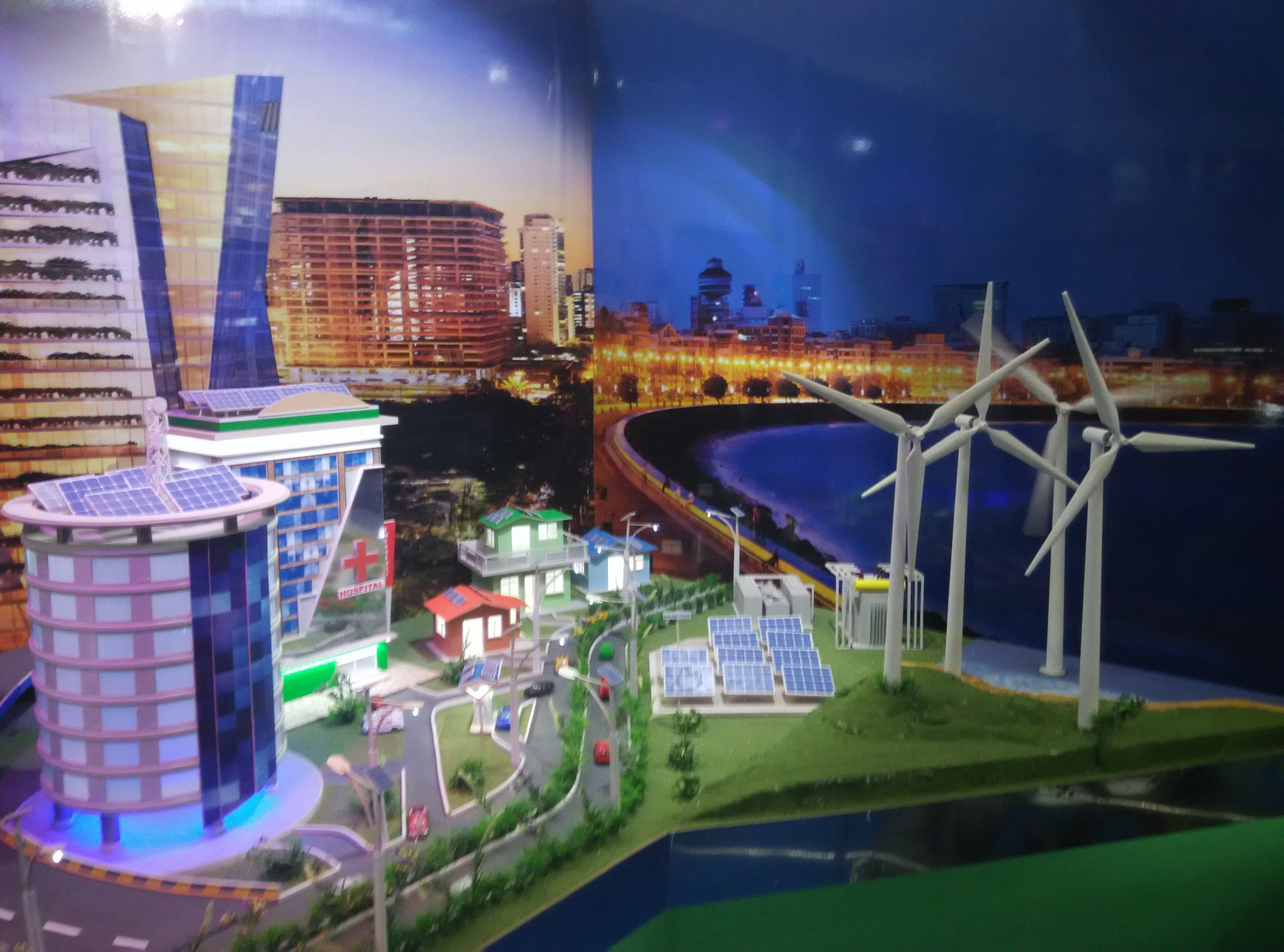 Trade Fair